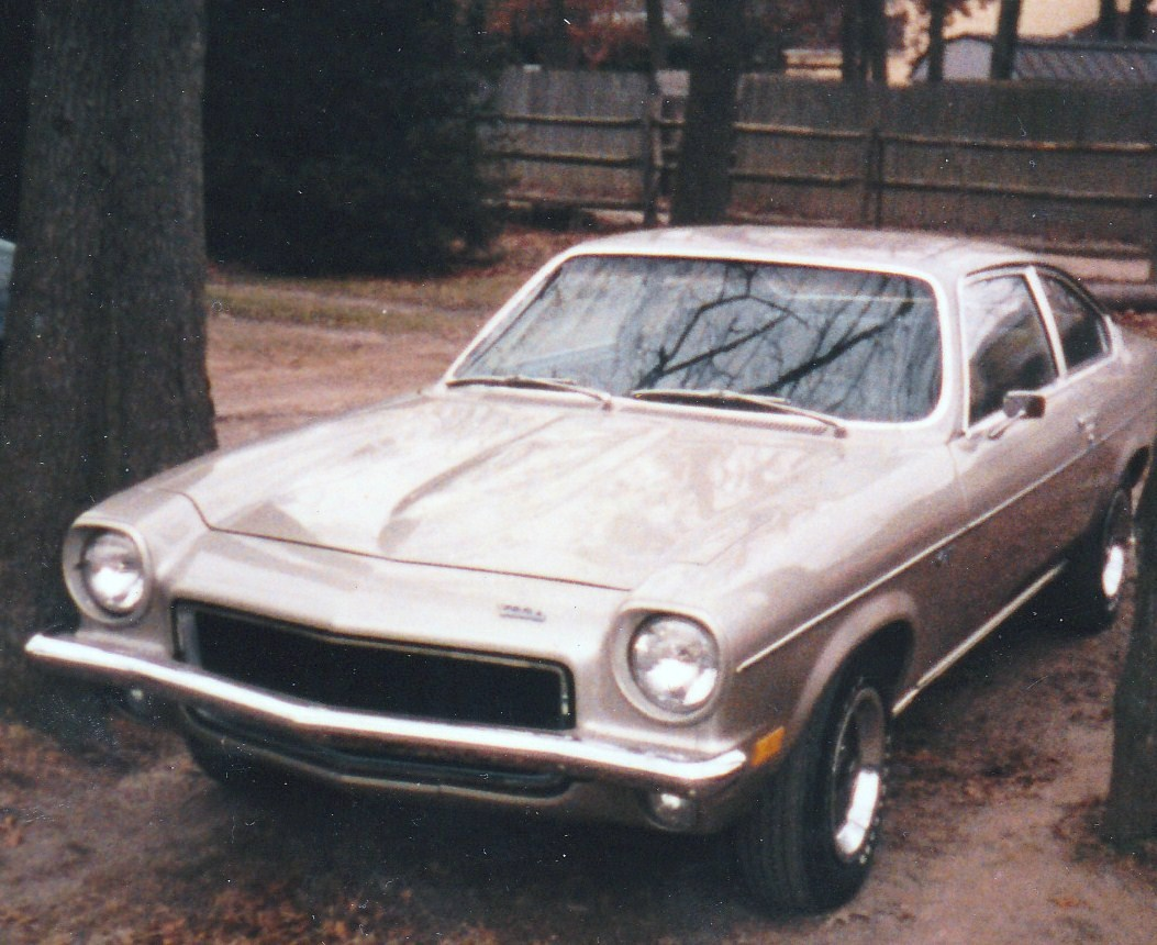 1973 Vega GT photo